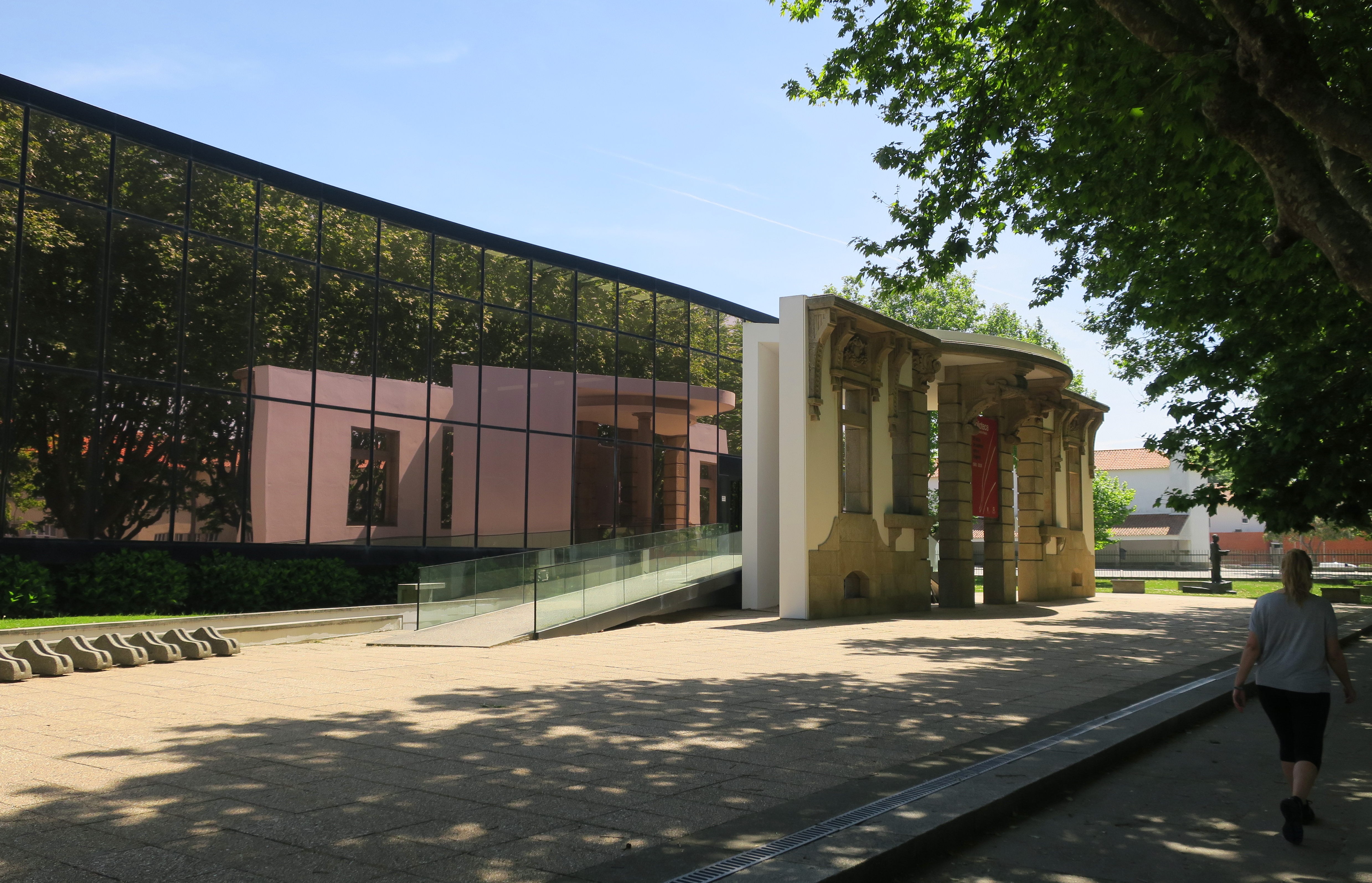 Póvoa de Varzim Municipal Library.